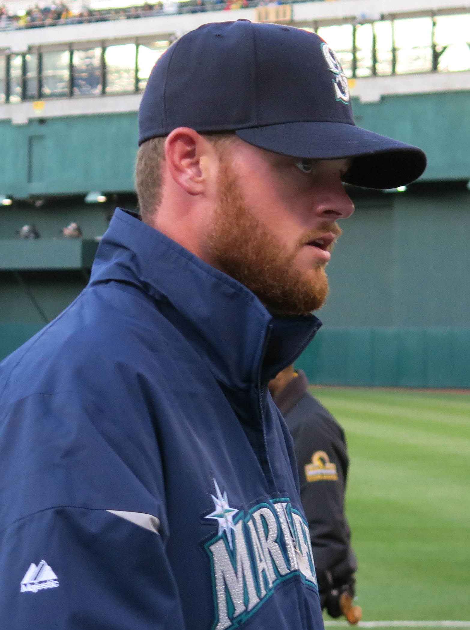 Seattle Mariners relief pitcher Charlie Furbush